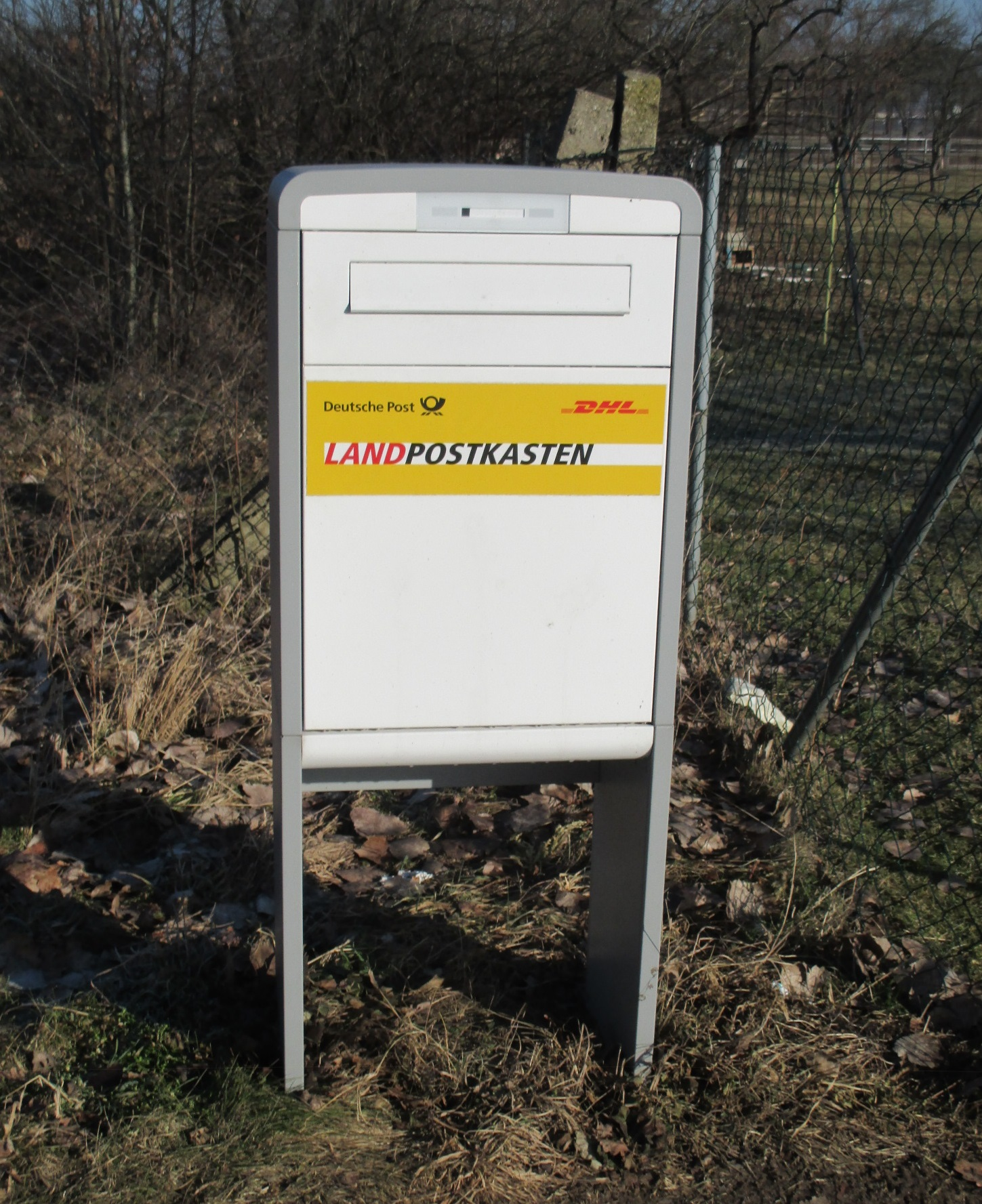 letterbox system